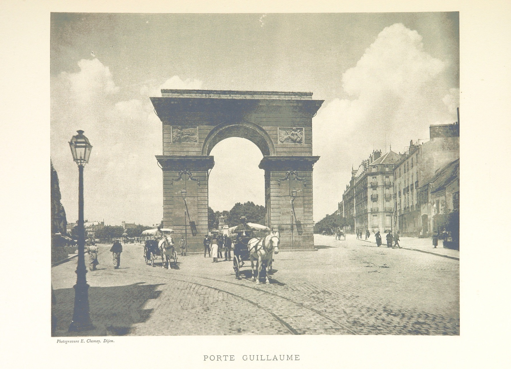 Print of a photograph of Porte Guillaume, Dijon. Photograph was taken by "E. Chesnay, Dijon" and digitized by the British Library from the book "Dijon Monuments et souvenirs" by Henri Chabeuf, published in 1894. The image shows a street lamp on the left, two horse carriages and a tram track in the middle, several people on the street and houses on the right side, as well as a picturesquely cloudy sky in the background. Porte Guillaume itself is shown frontally in the center of the picture, slightly off-center to the left. The image was taken with a perspective looking from the city center to the periphery.